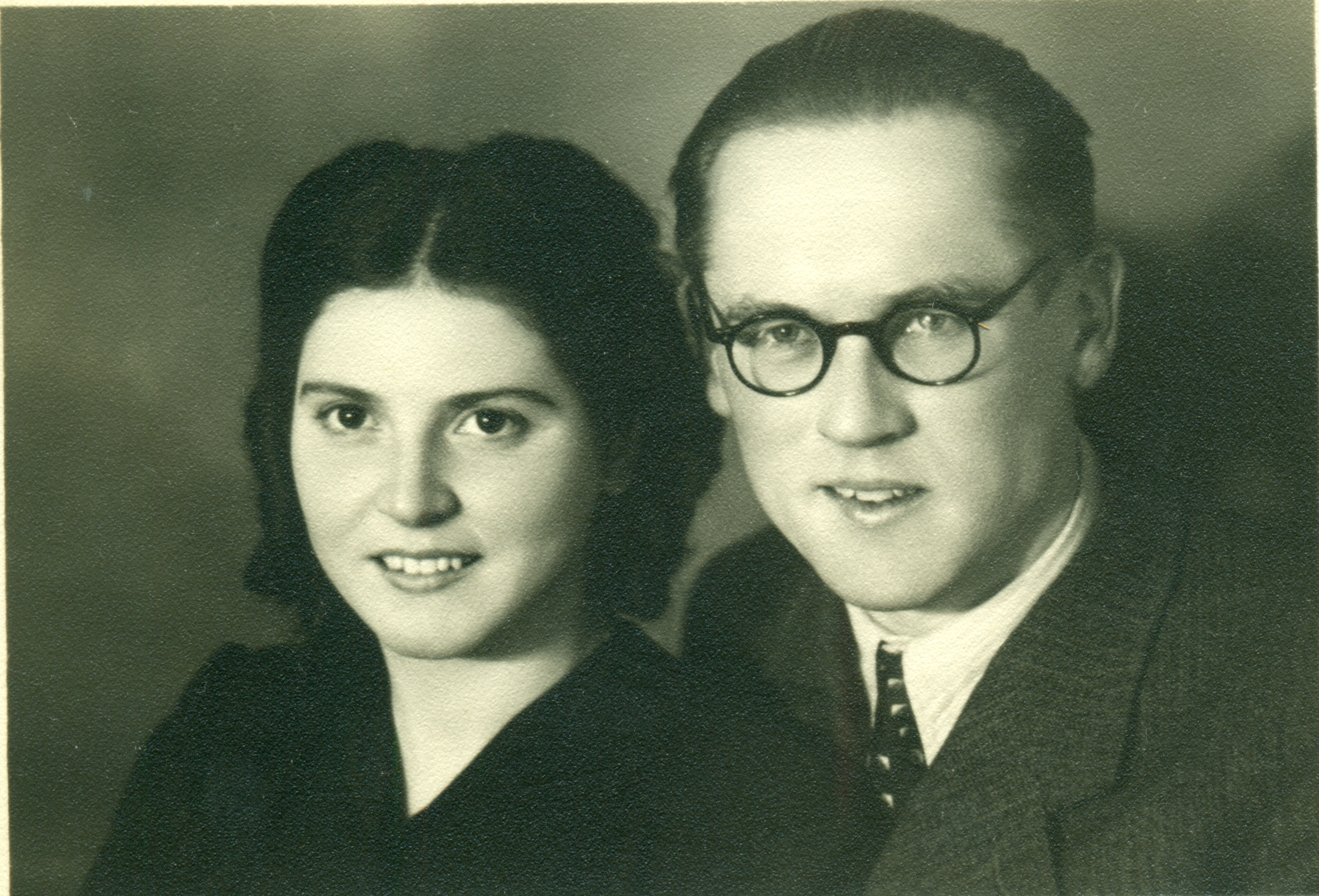 Alojz in Marija Zorc